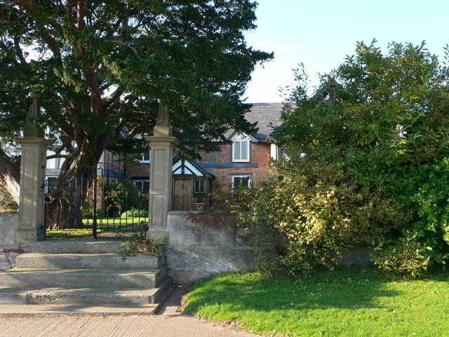 Rhydonnen A 17th-century half-timbered house extended in brick and stone during the 18th century.